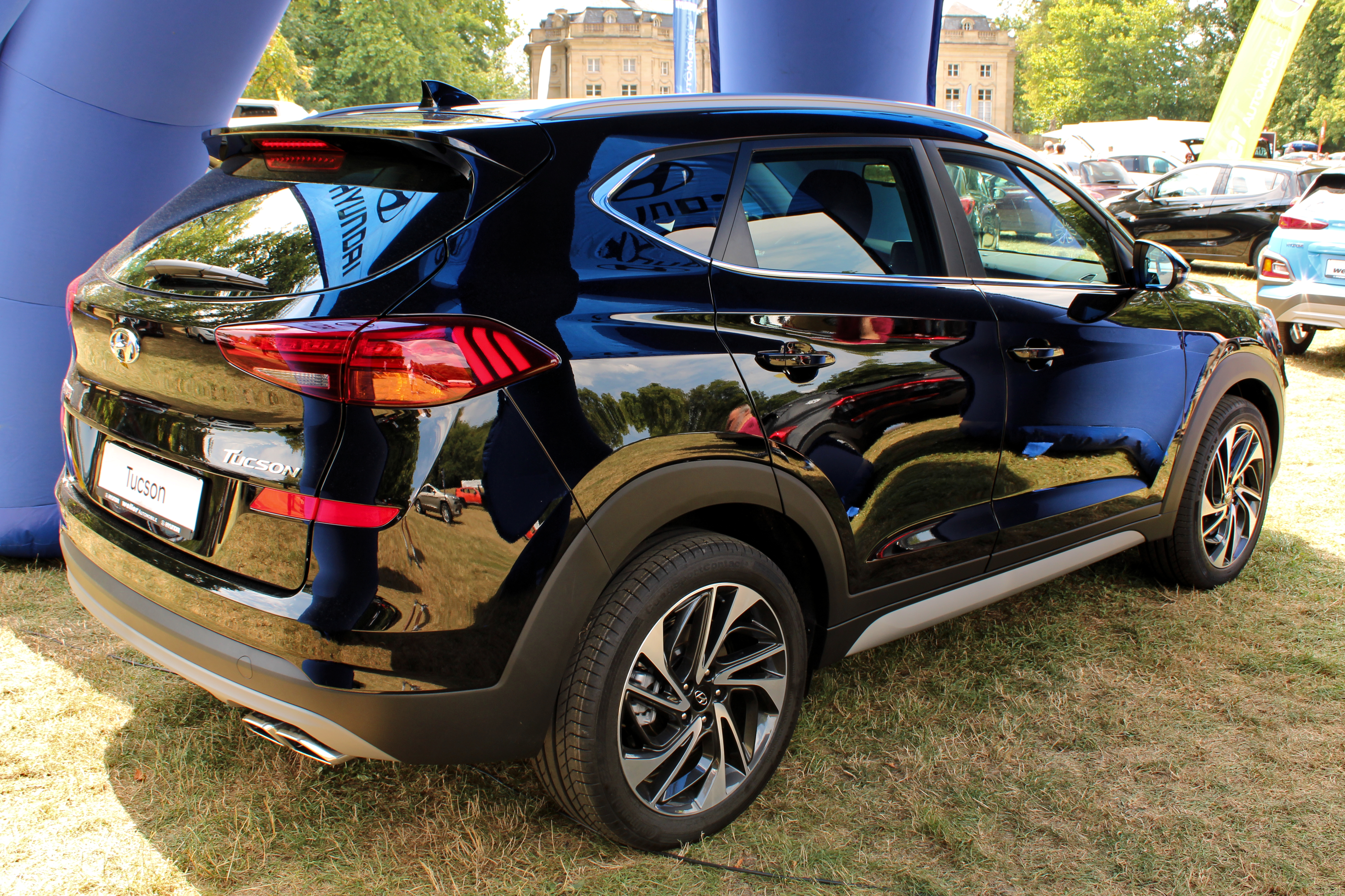 Hyundai Tucson (Facelift) at schloss Monrepos